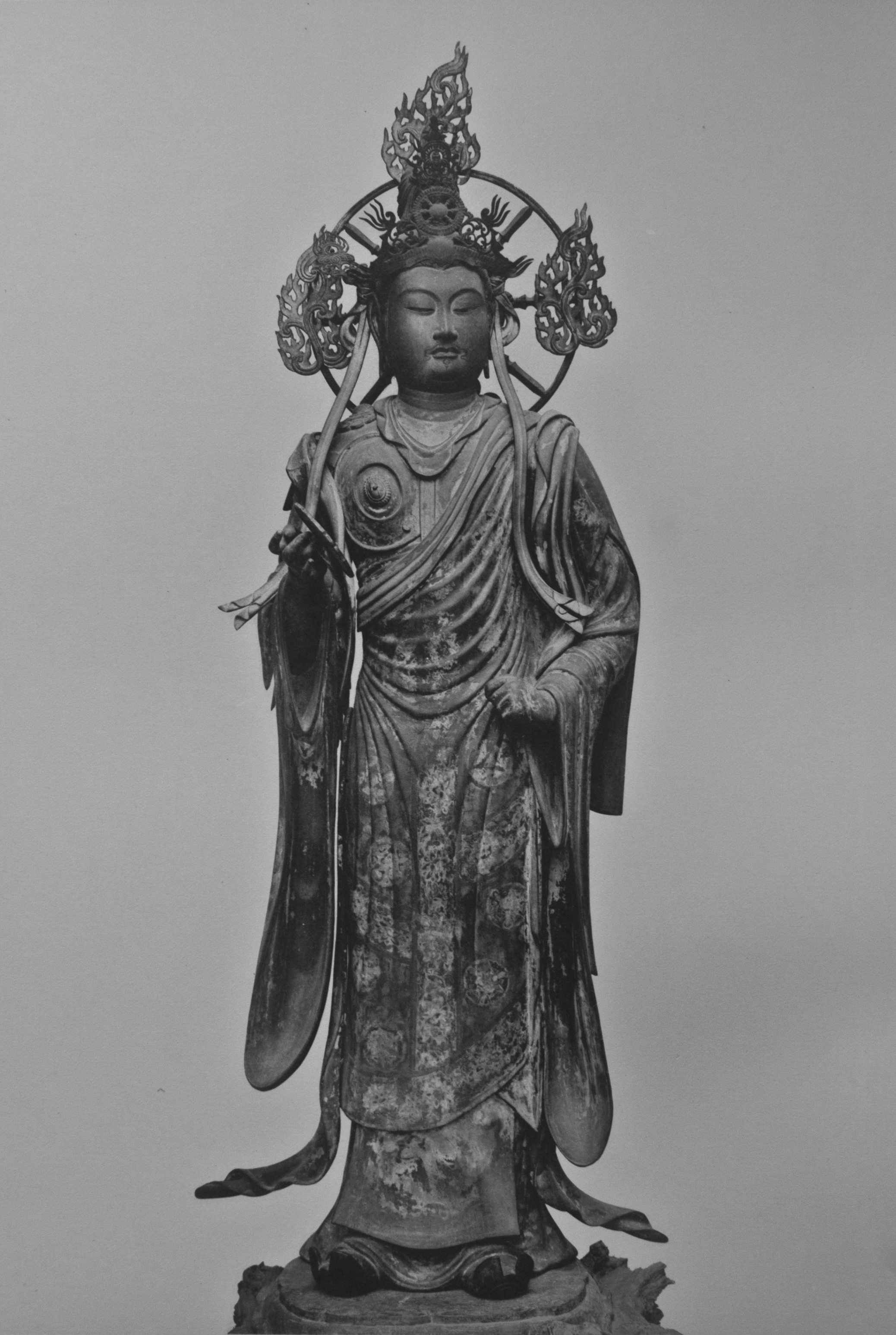 Sanjusangendo, Kyoto, Japan